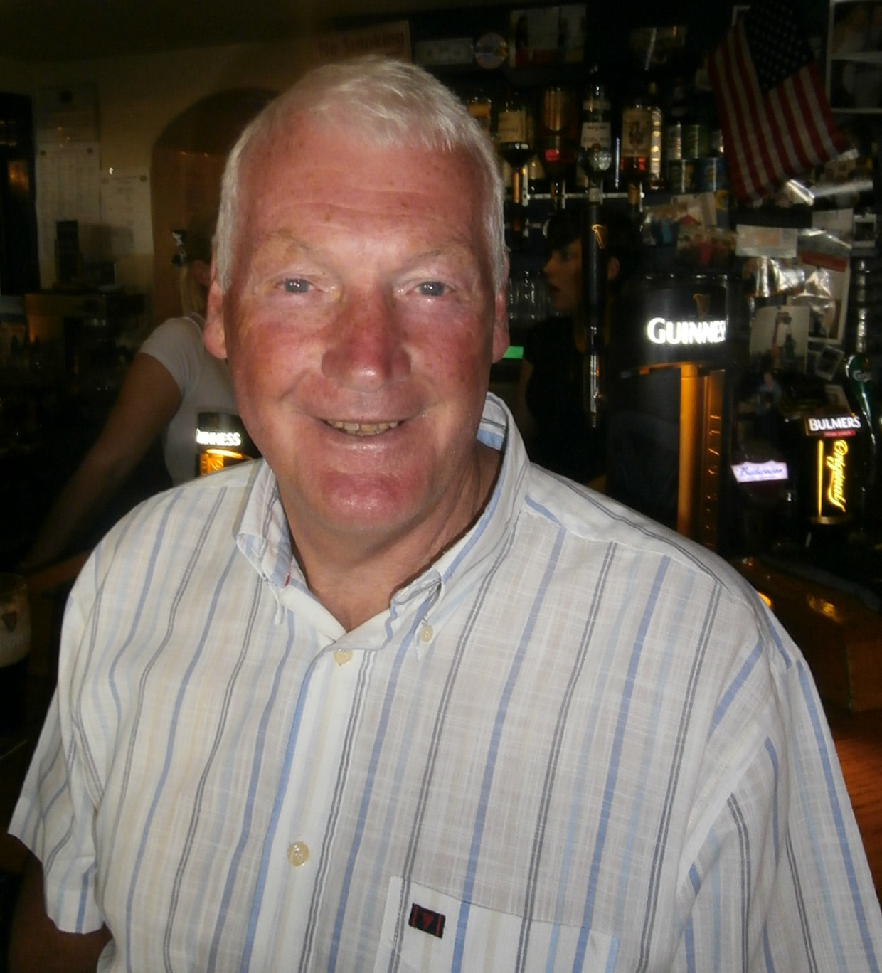 Billy Morgan. One of Cork's greats.